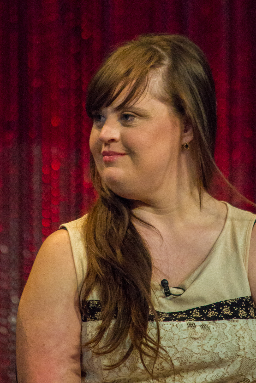 Jamie Brewer at PaleyFest 2014 for the TV show "American Horror Story: Coven"